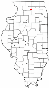 Category:Illinois city locator maps